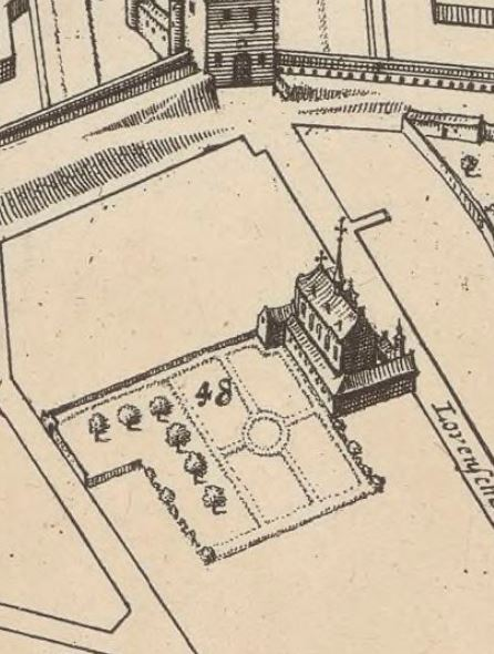 Detail of 1695 map by J. Laboureur & Josse van der Baren, Bruxella, nobilissima Brabantiæ civitas